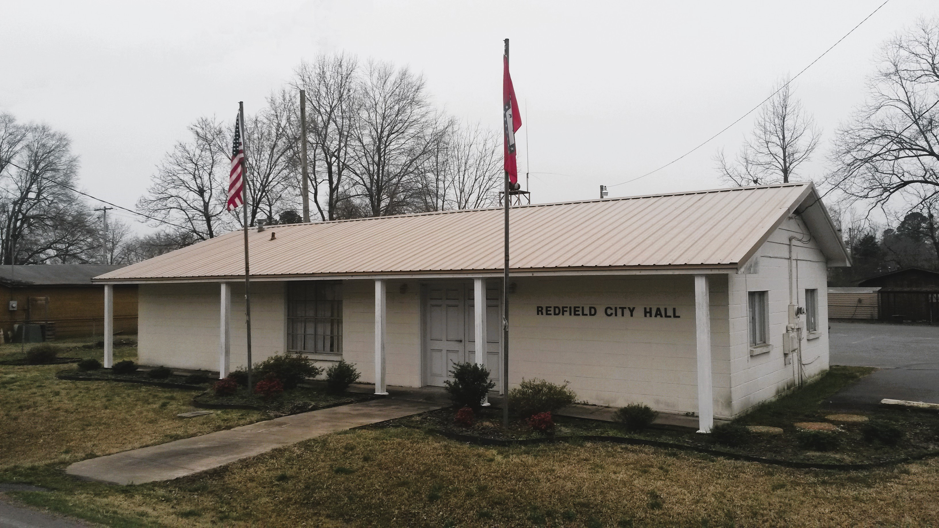 City Hall viewed from North Brodie Street, Redfield, Arkansas.